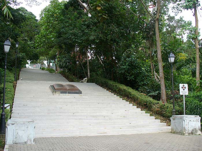 Bukit Batok Memorial at Lorong Sesuai, Singapore.